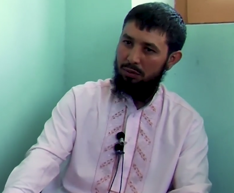 Mufti Nemat, better known as Mufti Nematullah Qaweem, a Afghan militant leader. He fought with the Taliban until 2015, defected to the government, but eventually joined the Islamic State's Khorasan Province (ISIL-K). He became ISIL-K's second-in-command for Jowzjan Province, fighting both Taliban as well as the government until his surrender to the Afghan National Army in 2018. He has been accused of numerous war crimes.